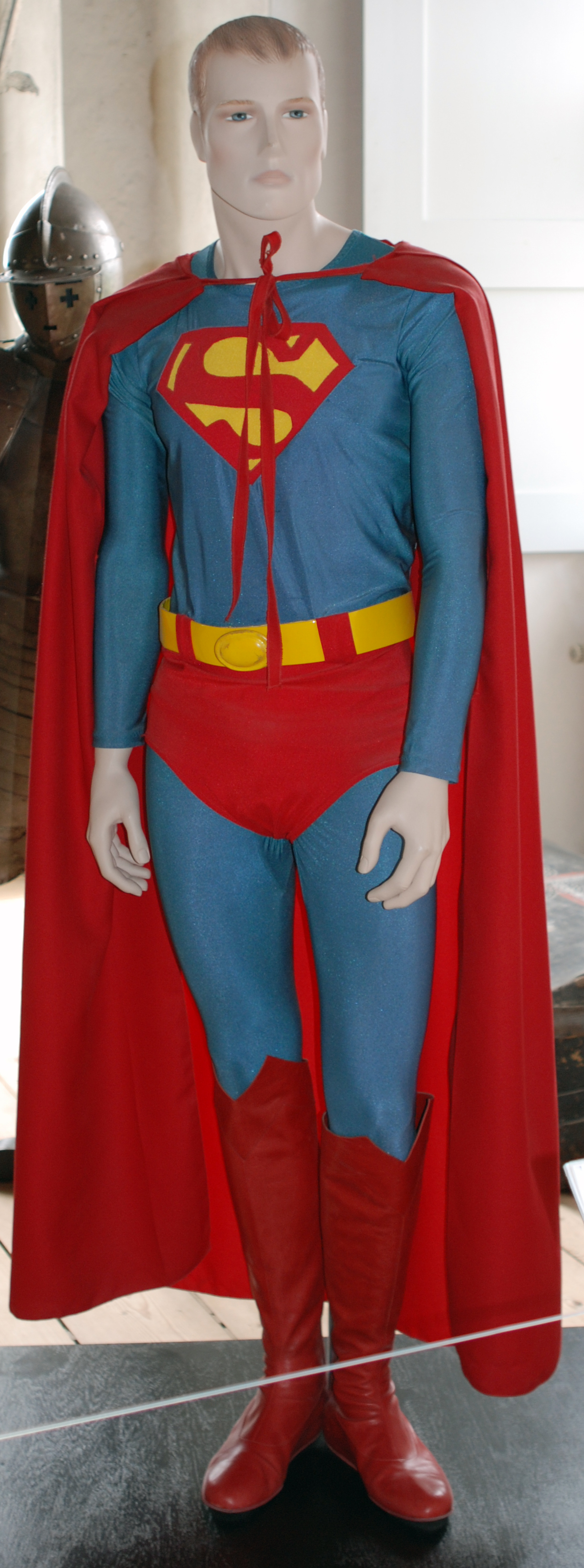 This is an original Superman costume owned by owner of Egeskov castle in Denmark.